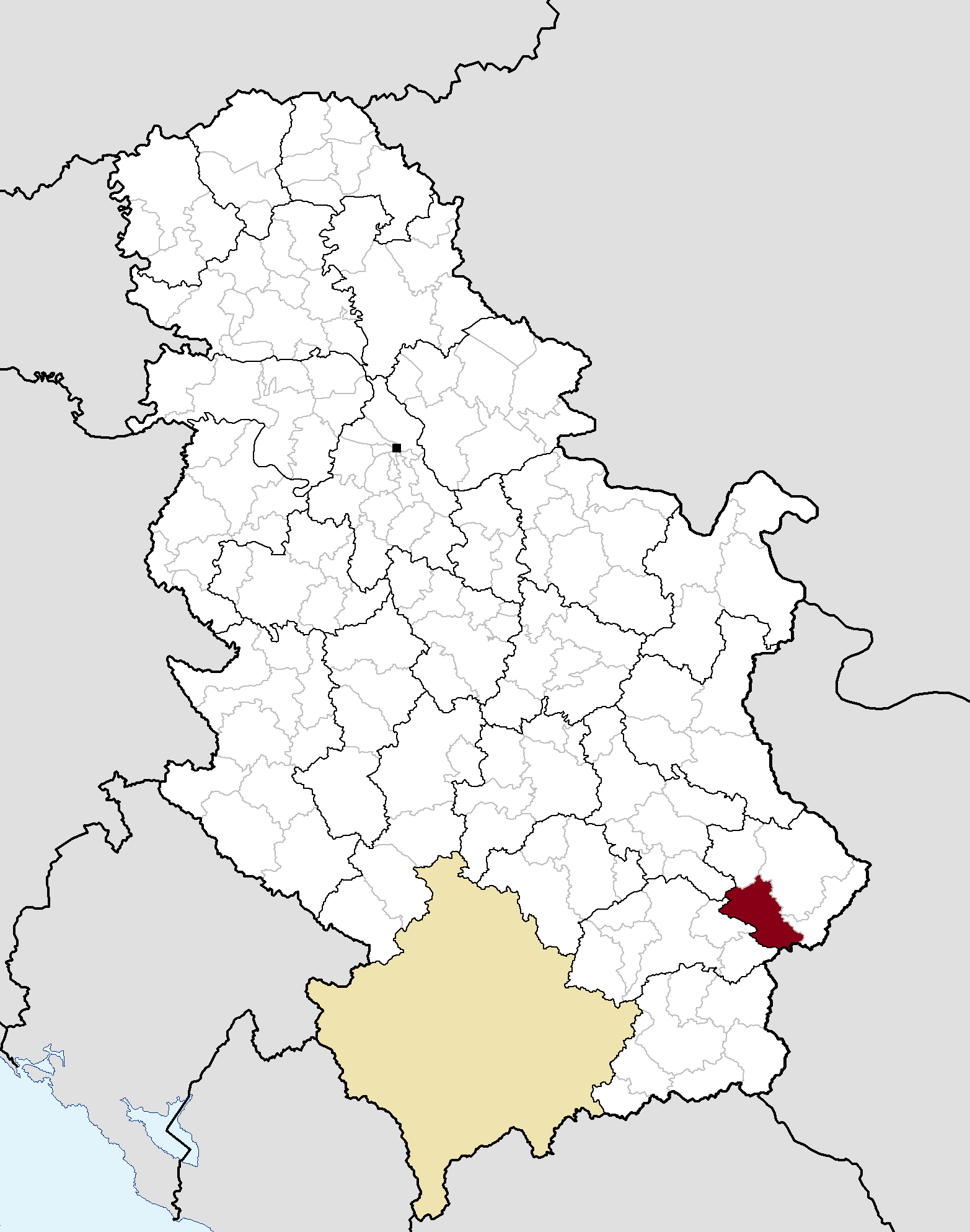 Municipal location in Serbia